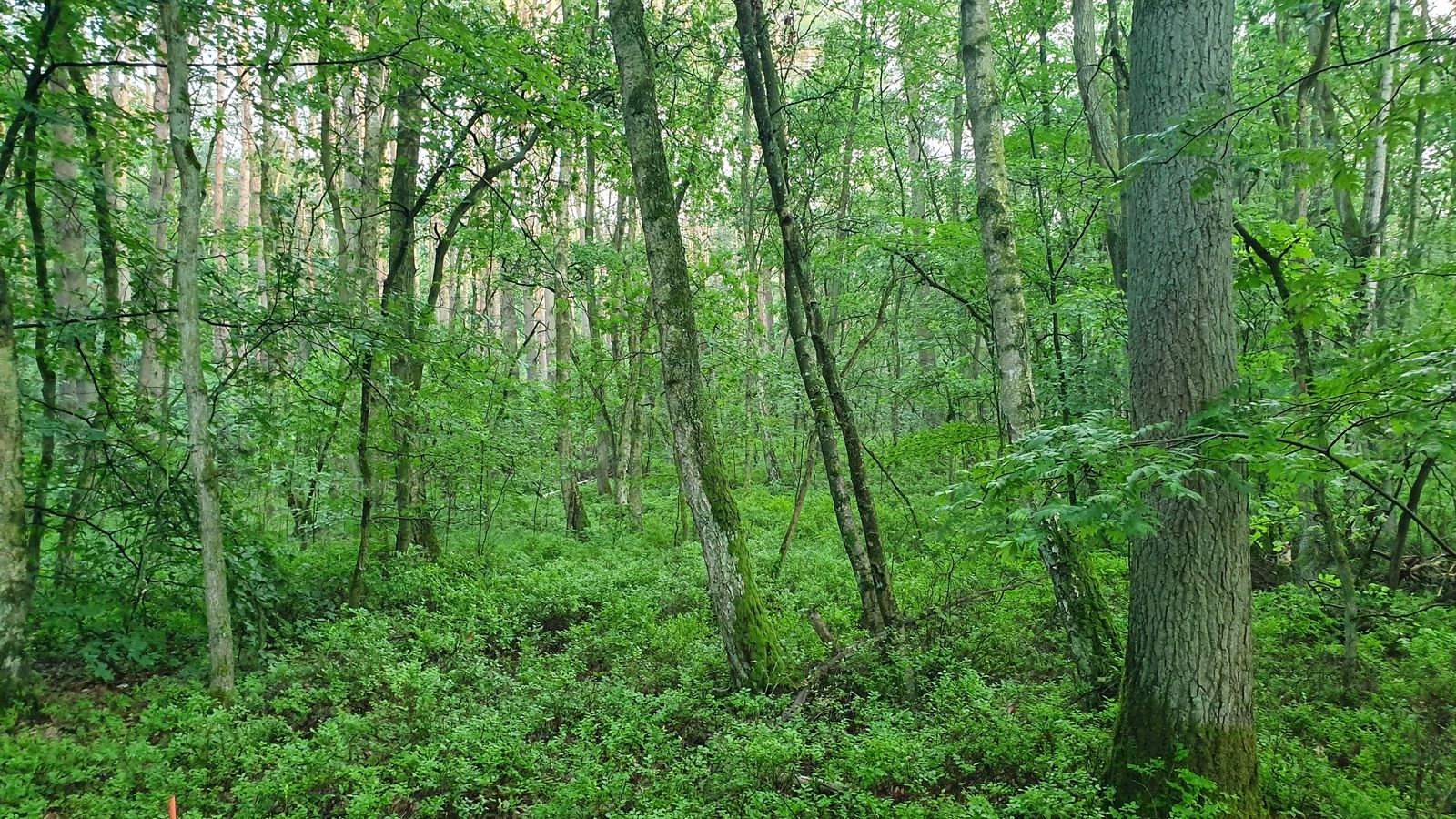 Naturschutzgebiet Birken-Eichenwald at Sangenstedt